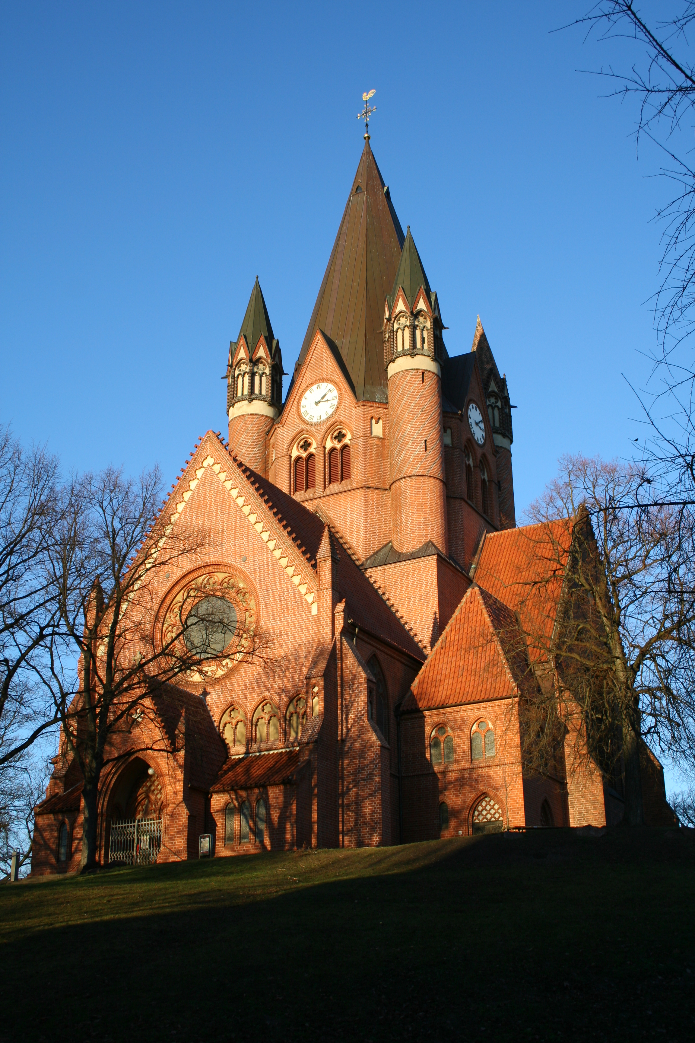 Pauluskirche in Halle (Saale) - Winter 2005/06. Clear blue sky.